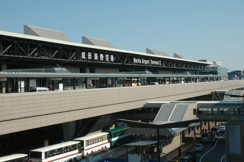 Narita International Airport Terminal2 building.